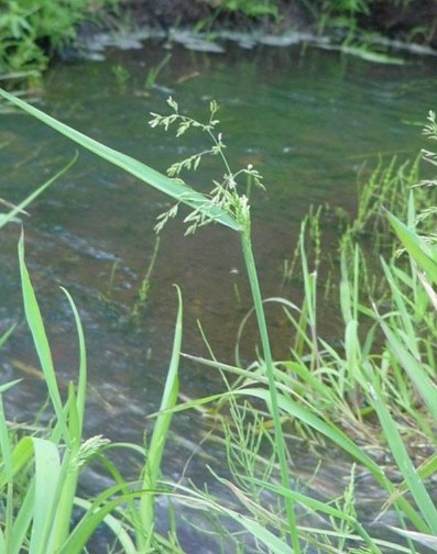 Torreyochloa pallida var. pauciflora from Bureau of Land Management. United States, ID, Bureau of Land Management Jarbidge Resource Area.